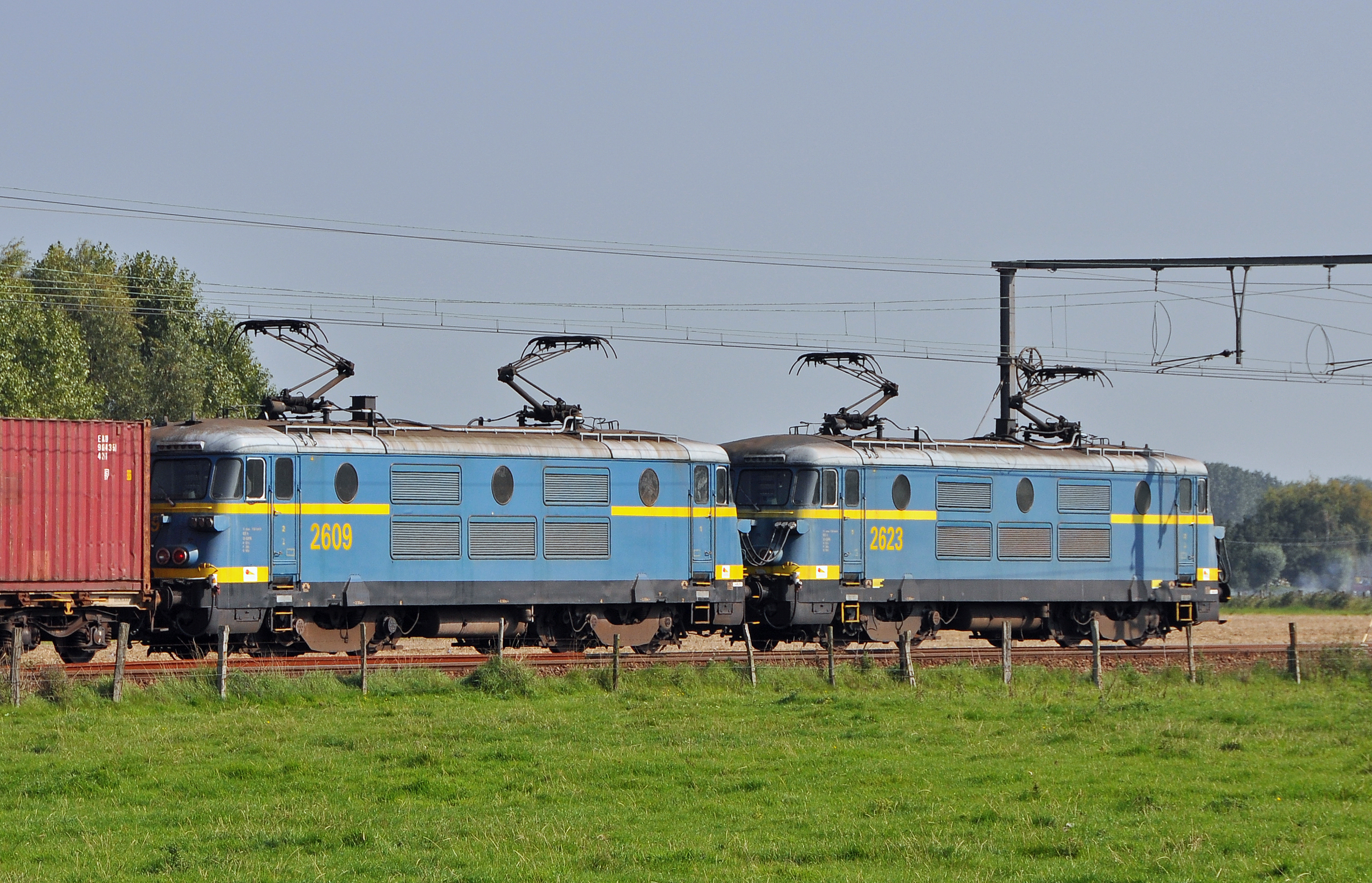 Belgian electric locomotives #2609 and #2623 (SNCB/NMBS Class 26) near Zwankendamme, between Zeebrugge and Bruges (Belgium). All Class 26 locomotives have been taken out of the service in December 2011.